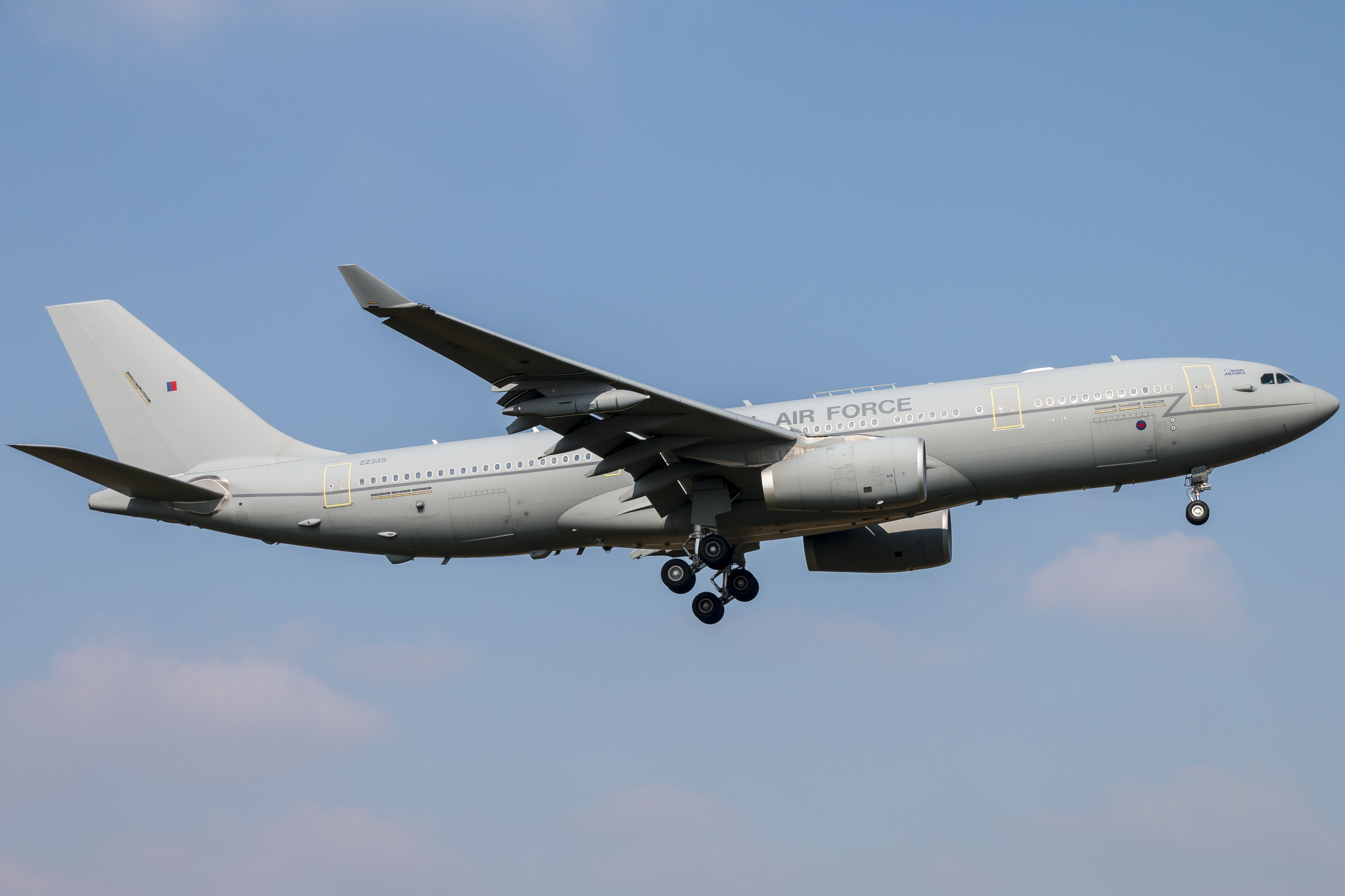 RAF A330 Voyager ZZ335, Brize Norton 17th March 2016